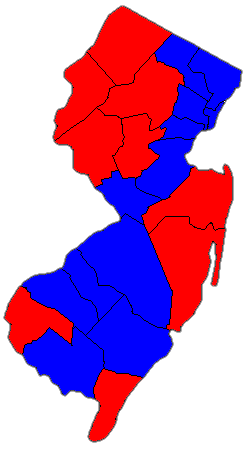 County results of NJ Gubernatorial election, 2005